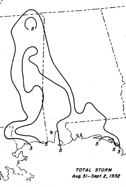 Rainfall totals for Hurricane Three (1932) when it made landfall on Alabama.